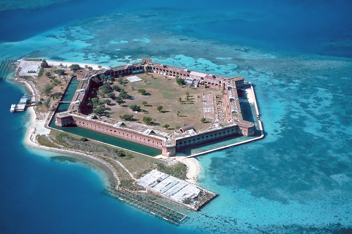 Fort Jefferson at the Dry Tortugas. The clear waters in shallow areas surrounding the fort, seen easily in the photo, are popular for snorkeling and scuba diving. Visible on the right side of the image is a breach of the sea wall caused by the direct strike of Hurricane Charley in August 2004. - OpenStreetMap(Info)